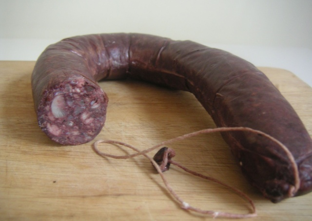 La "botifarra" is a typical Catalan dish, they can be white (without blood) or black (as this one, with porc blood mixed with the meat). There are other more types...